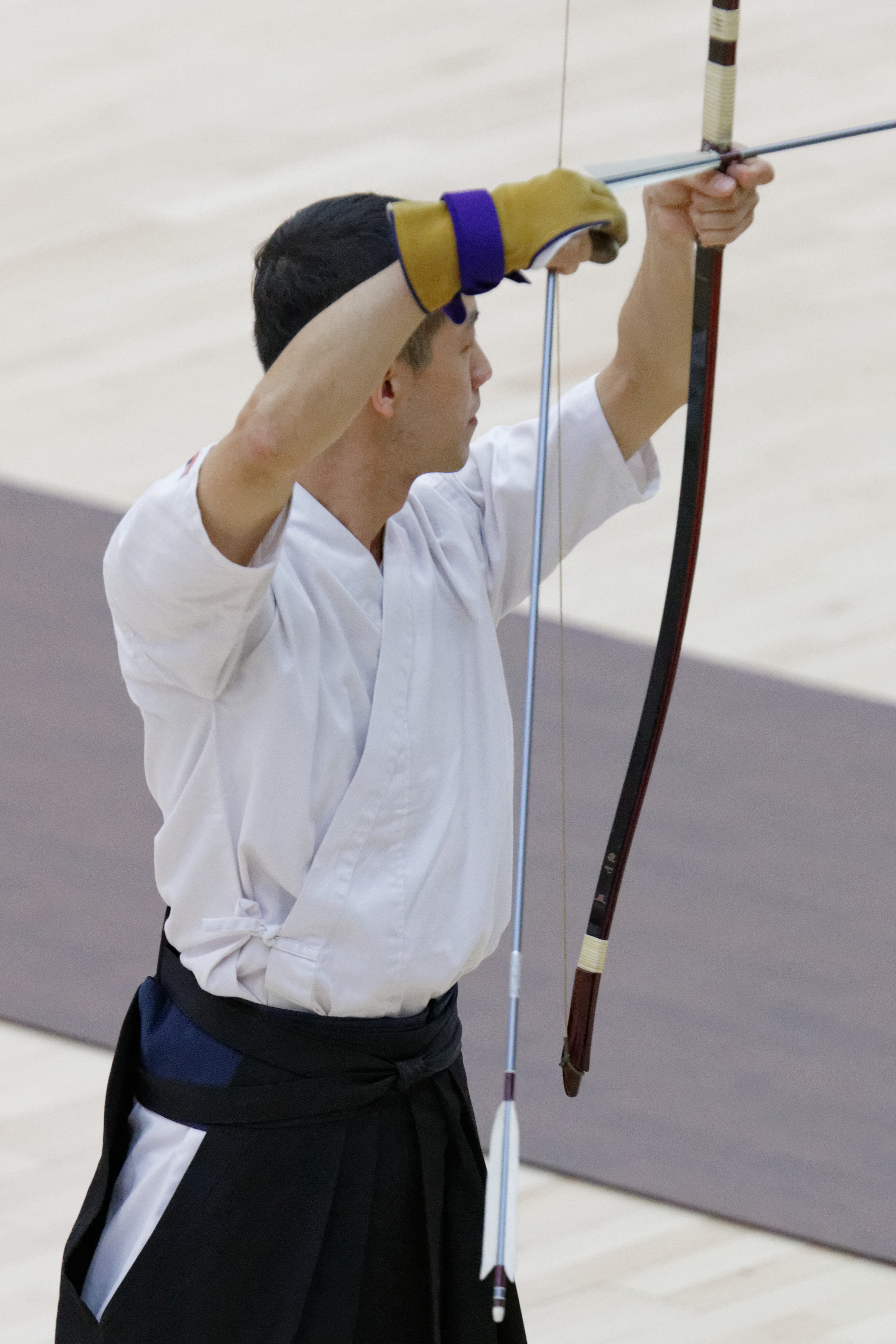 Second 2014 Kyudo World Cup, Paris. Team Competition.